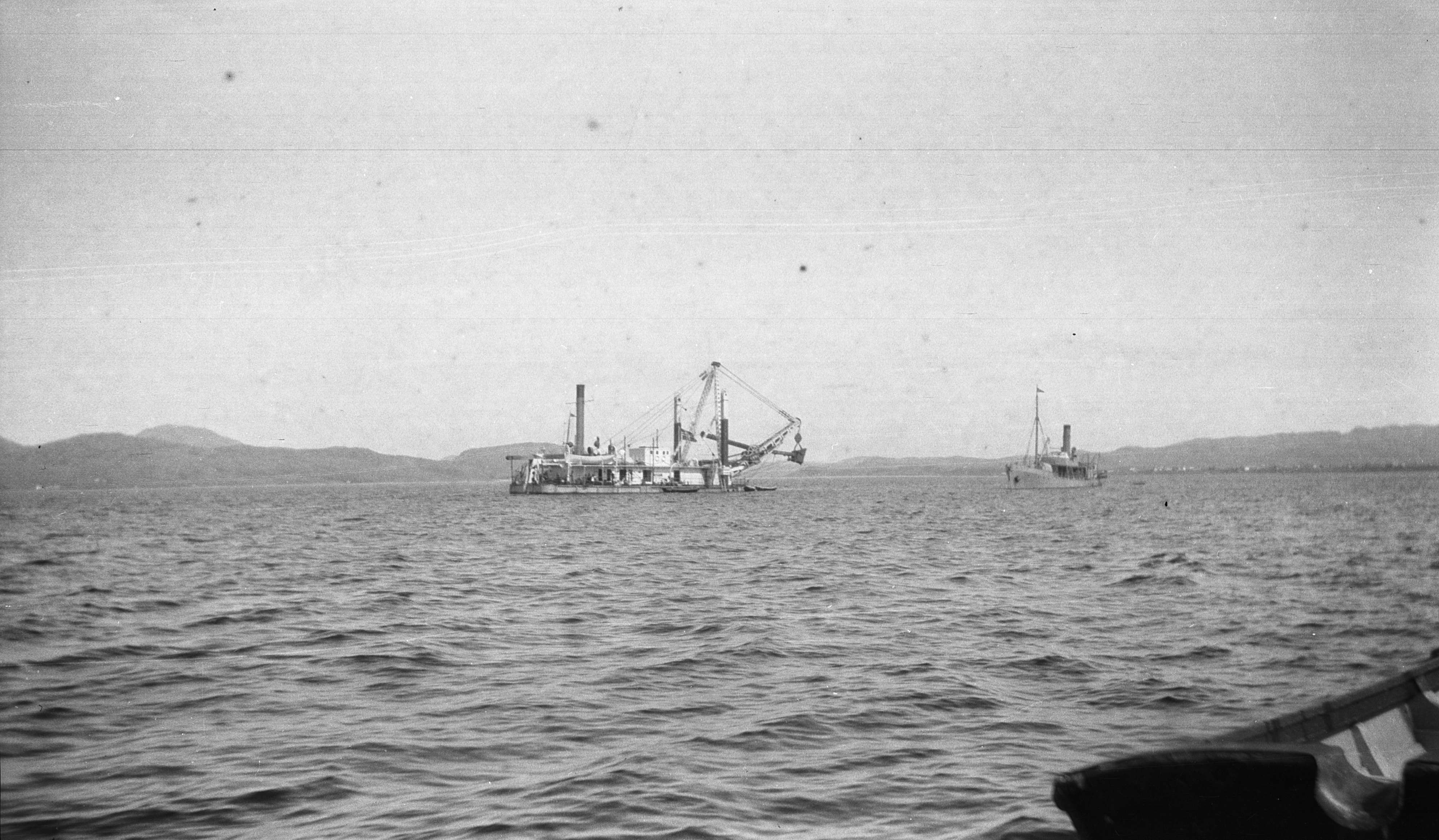 Identifier: SFFf-100585.274841 Photographer: Kristian Berge. Medium: Cellulose nitrate negative. Extent: 7 x 12 cm. Original caption (from Berge's negative album): Ekseavator 6 ved Uthaug.